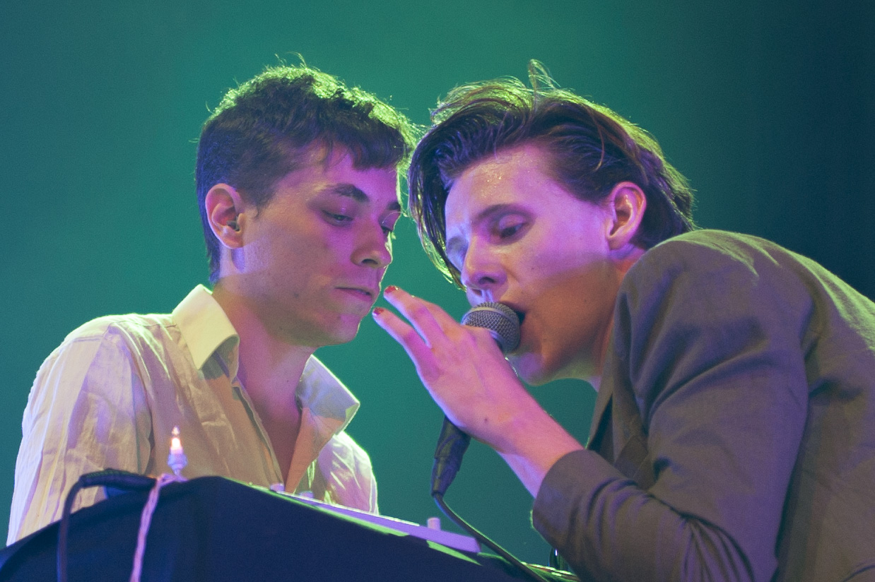 Jonathan Rado and Sam France of Foxygen performing at Flow Festival in Helsinki, August 15, 2015